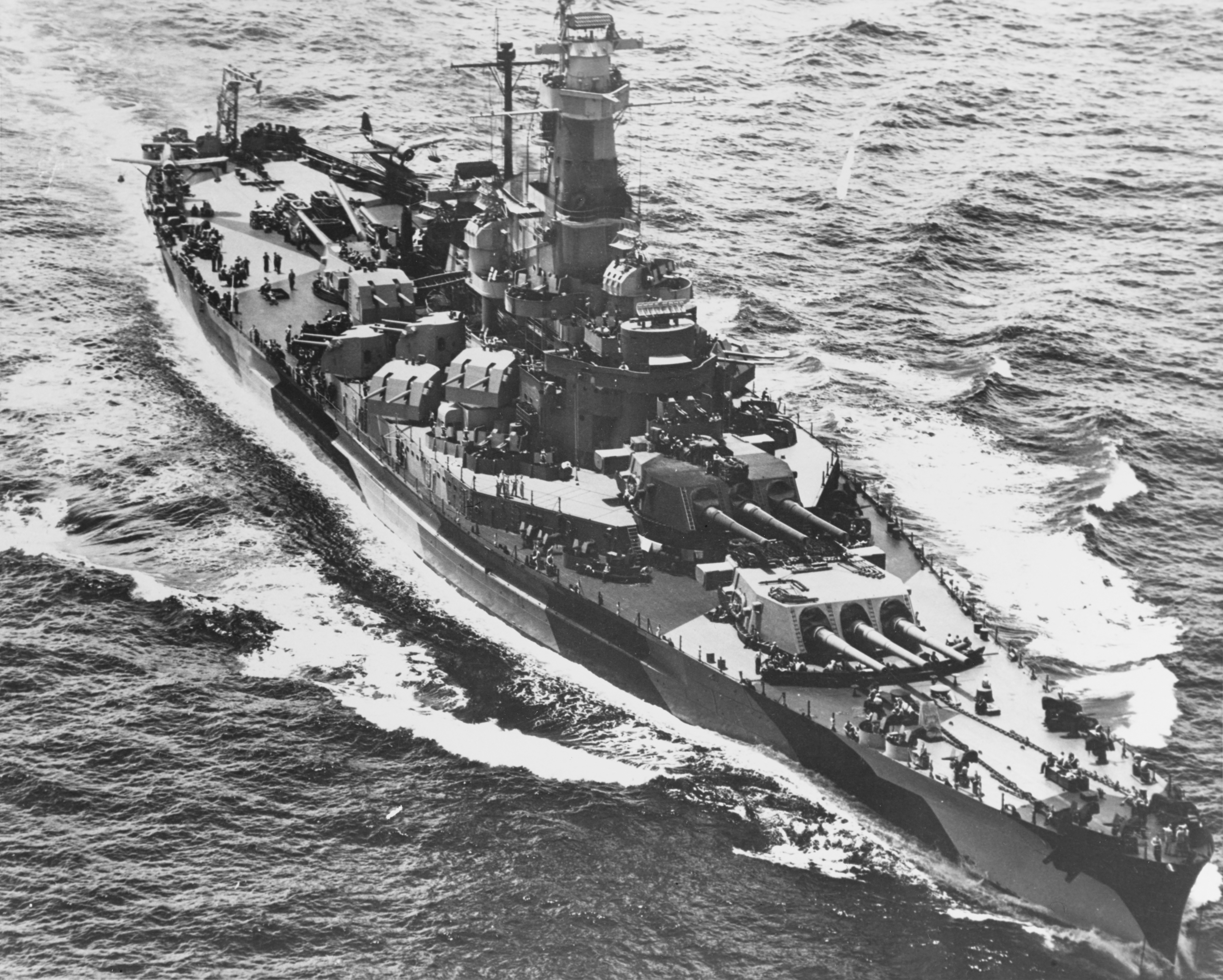 Steaming with Task Force 58.1 on 27 January 1944, en route to attack Taroa Island airfield, Maloelap Atoll, Marshall Islands. Taken by a USS Enterprise (CV-6) photographer. Official U.S. Navy Photograph, now in the collections of the National Archives.